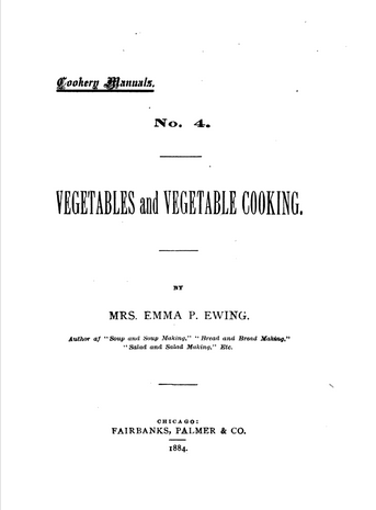 Vegetables and Vegetable Cooking, By Mrs. Emma (Pike) Ewing